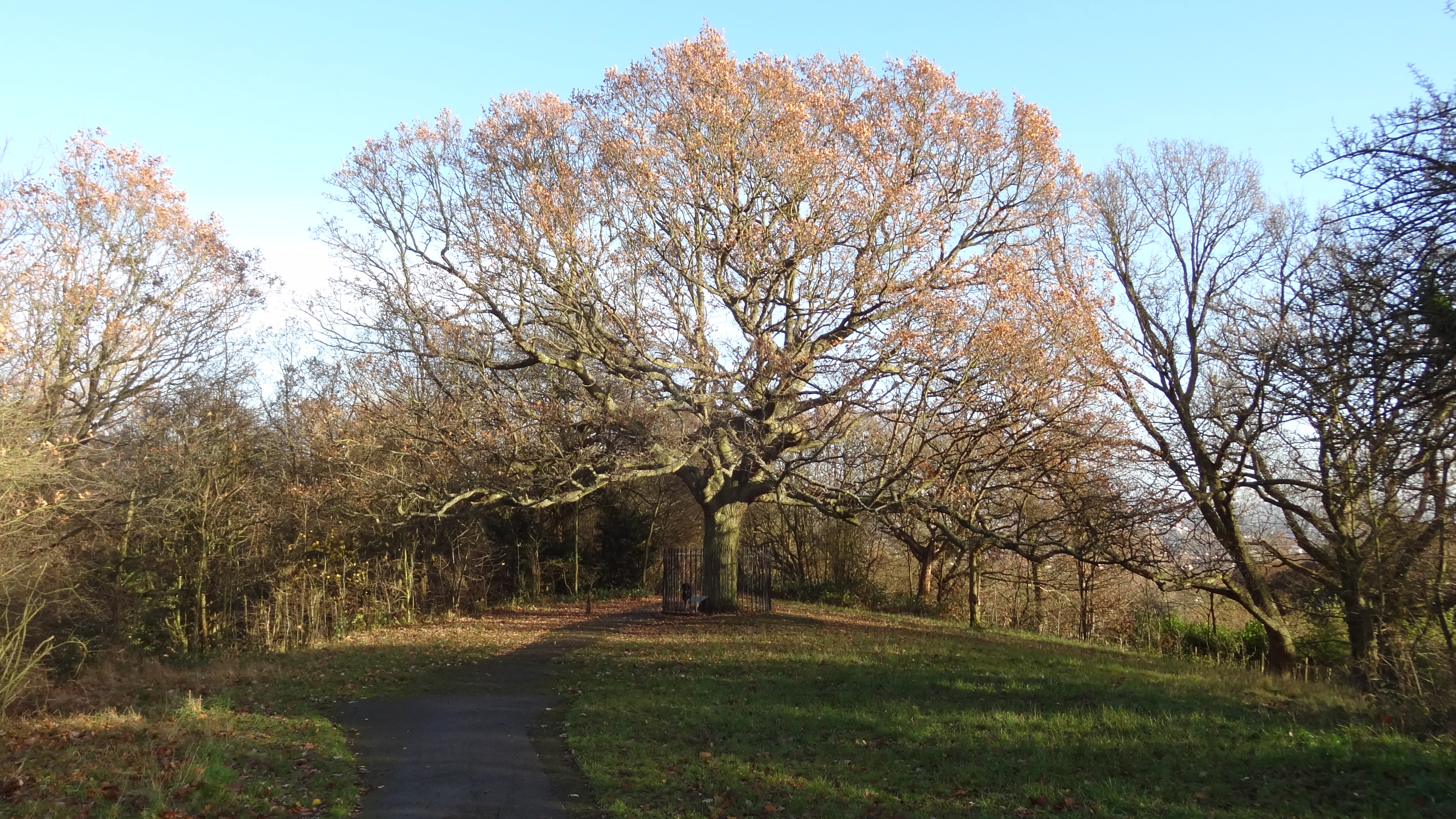 One Tree Hill, park and nature reserve in Honor Oak, Southwark, London